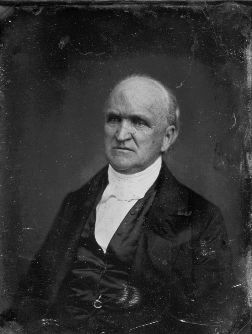 Samuel Hanson Cox, half-length portrait, three-quarters to the left.